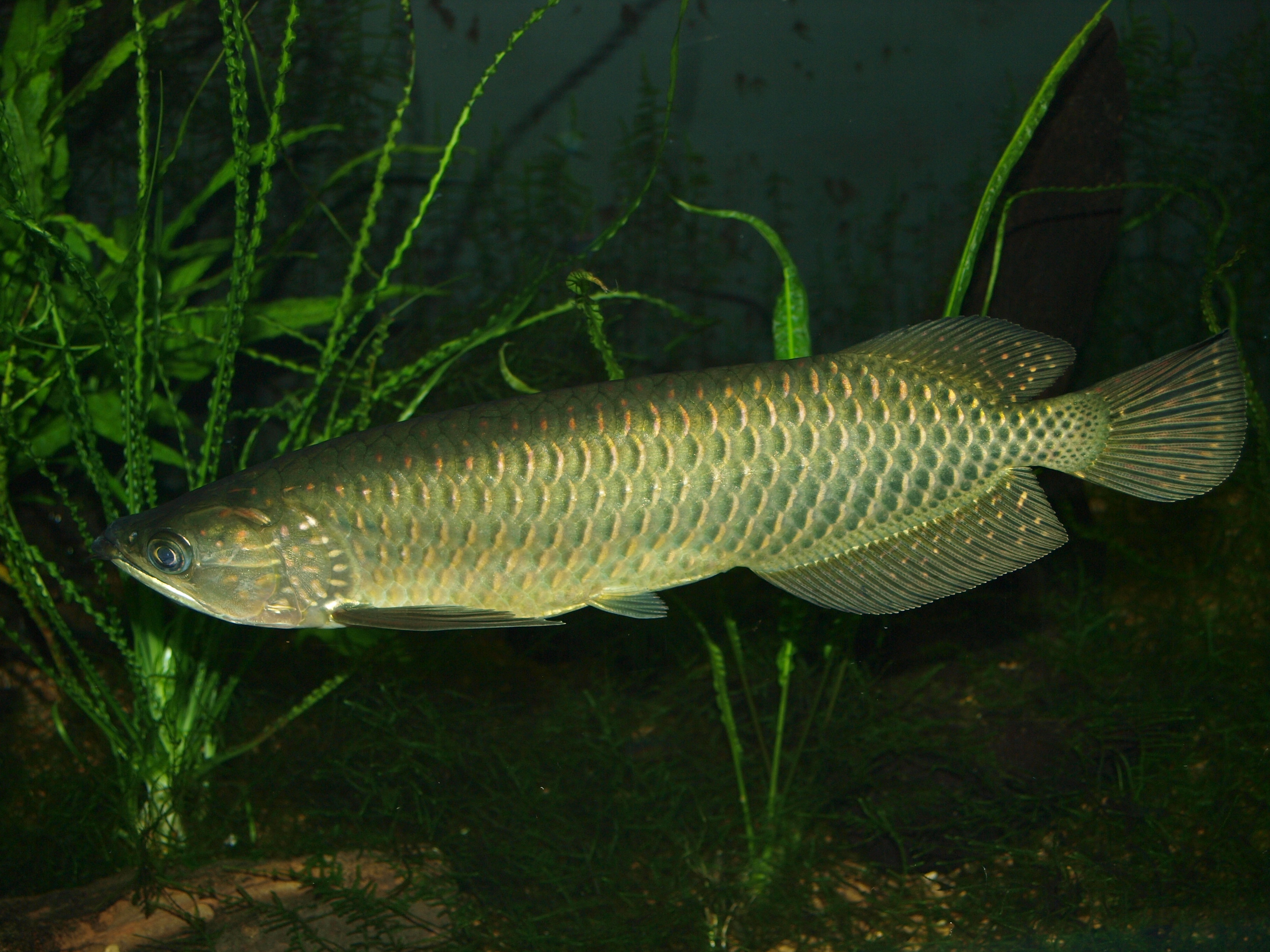 Saratoga (Scleropages leichardti) at New York Aquarium